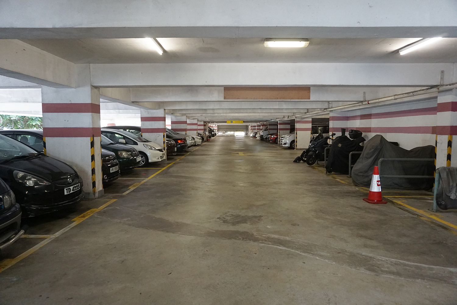 Tsui Ping (South) Estate in Kwun Tong, Hong Kong.